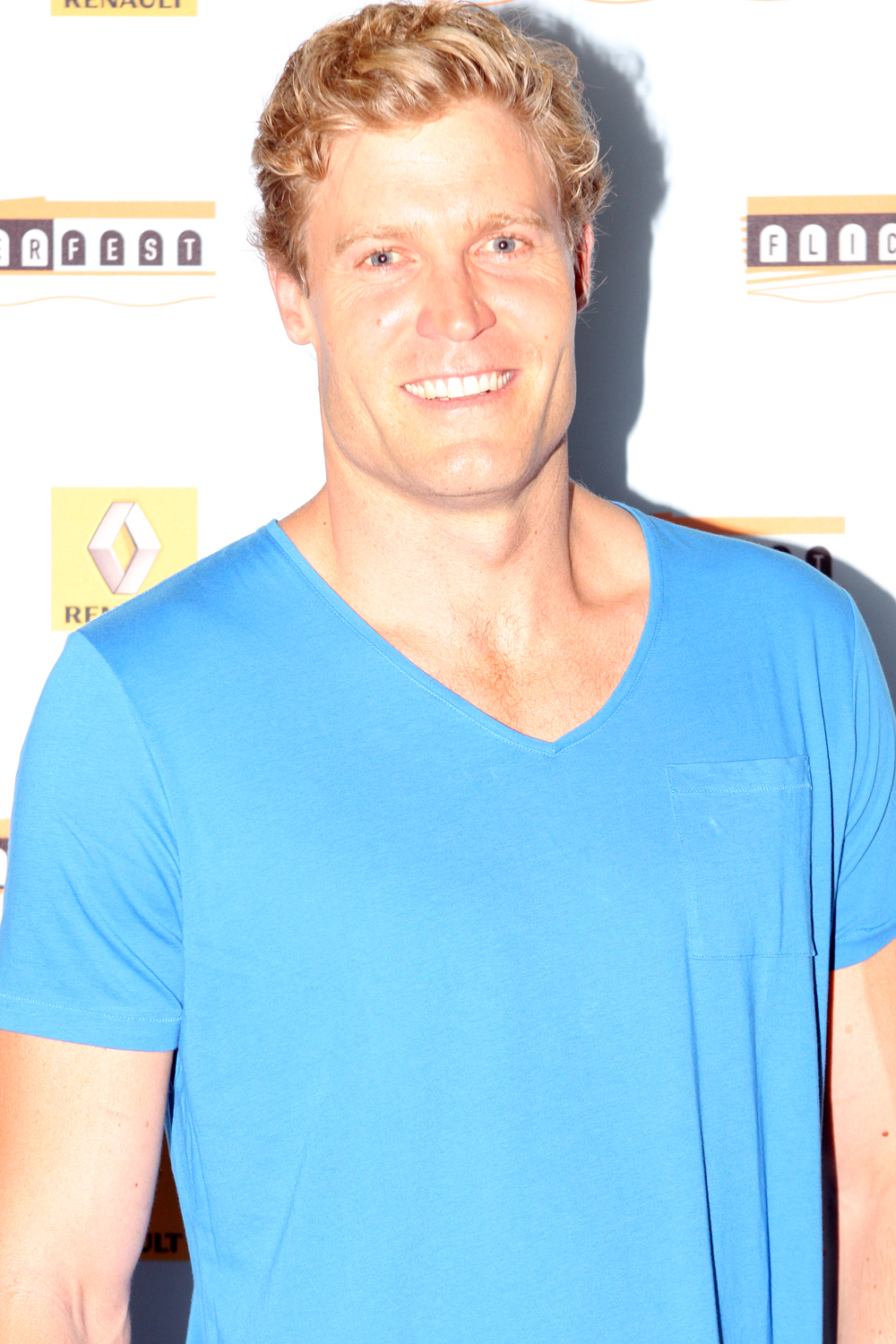 Flickerfest Short Film Festival opens at Bondi Pavilion, Bondi Beach, Sydney, Australia - 11th January 2013...